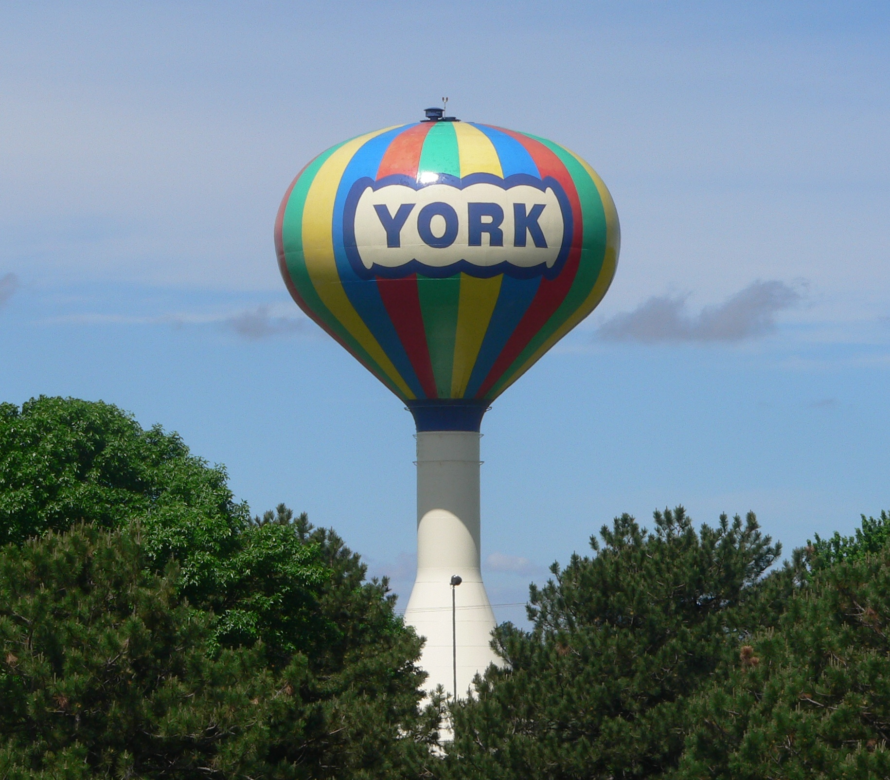 York, Nebraska water tower, northwest of the junction of U.S. Highway 81 and Interstate 80.